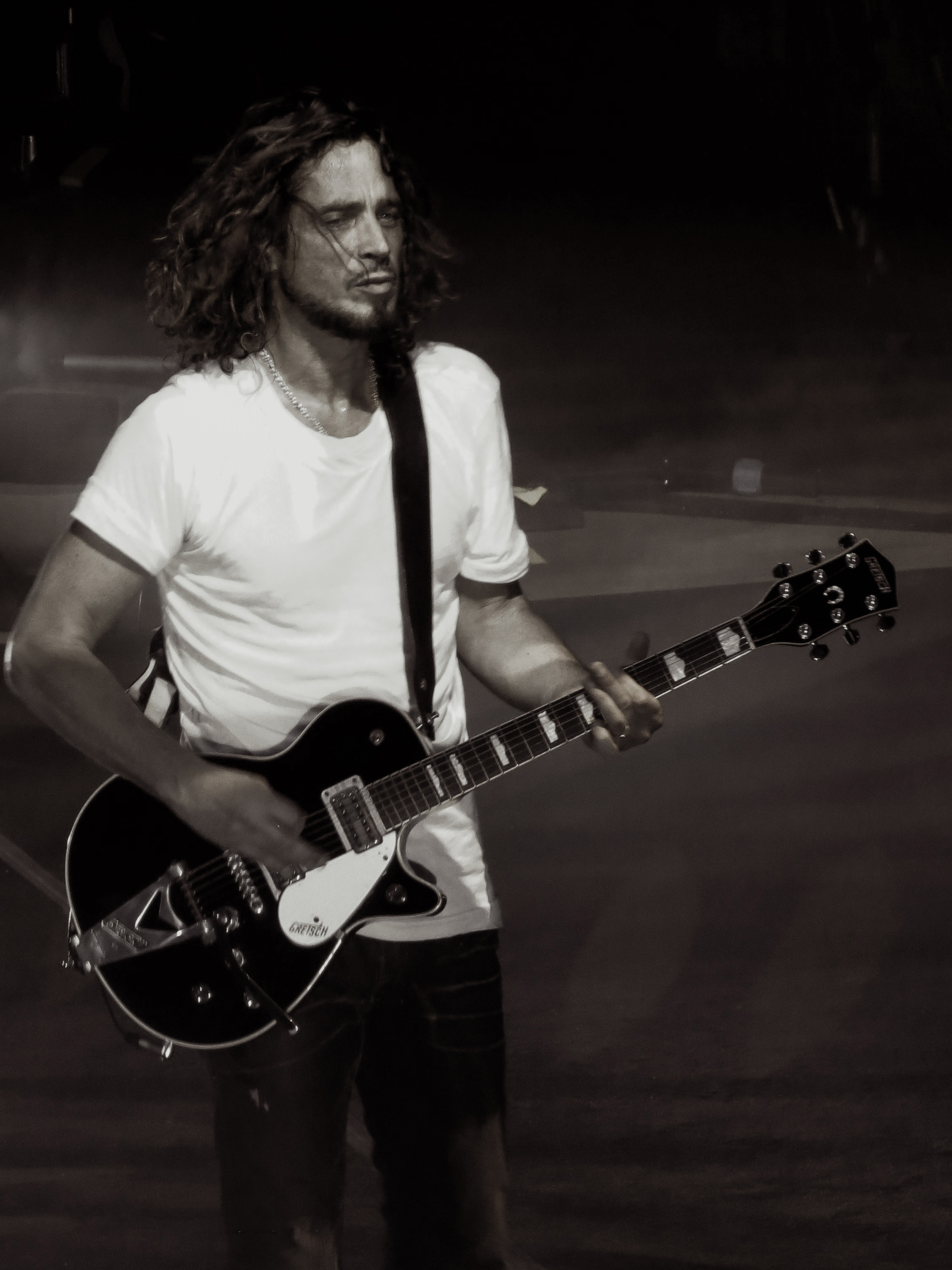 Chris Cornell live at Washington, 2013